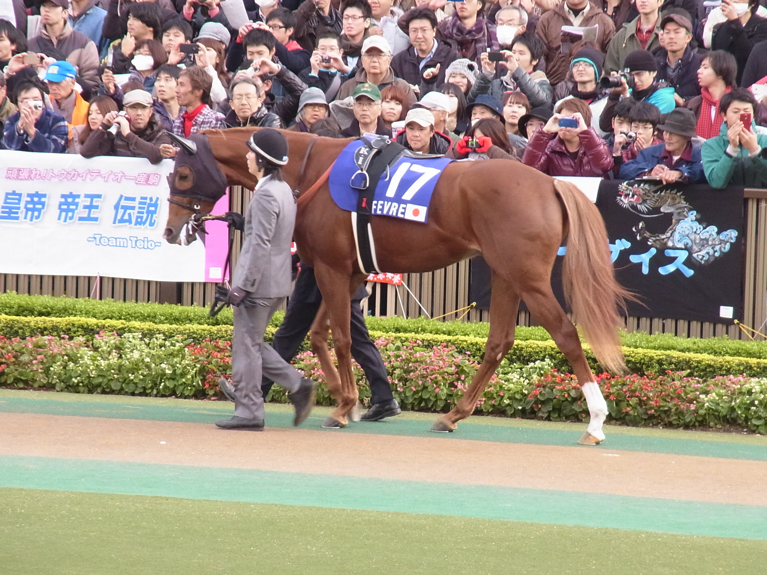 Orfevre (2012Japan Cup)